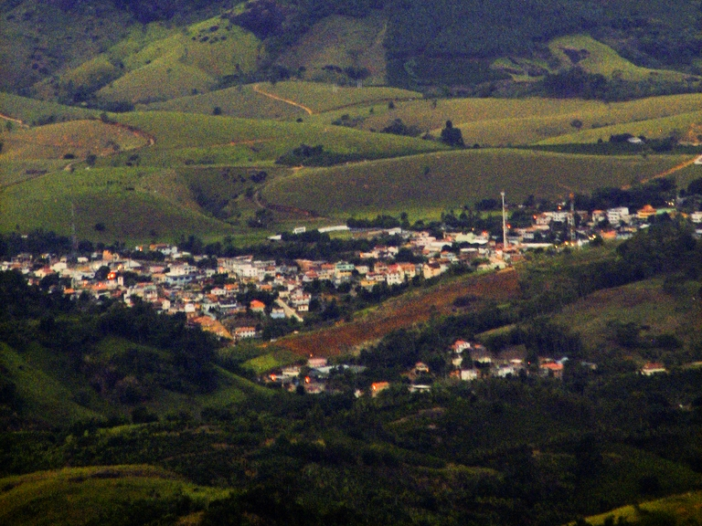 View of Fundão, Espírito Santo, Brazil, from Pico do Goiapaba-Açu.